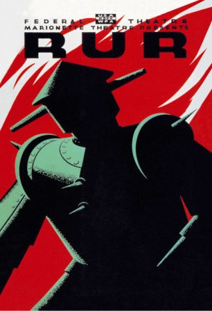 WPA Marionette Theater poster for RUR, 1935-1939.